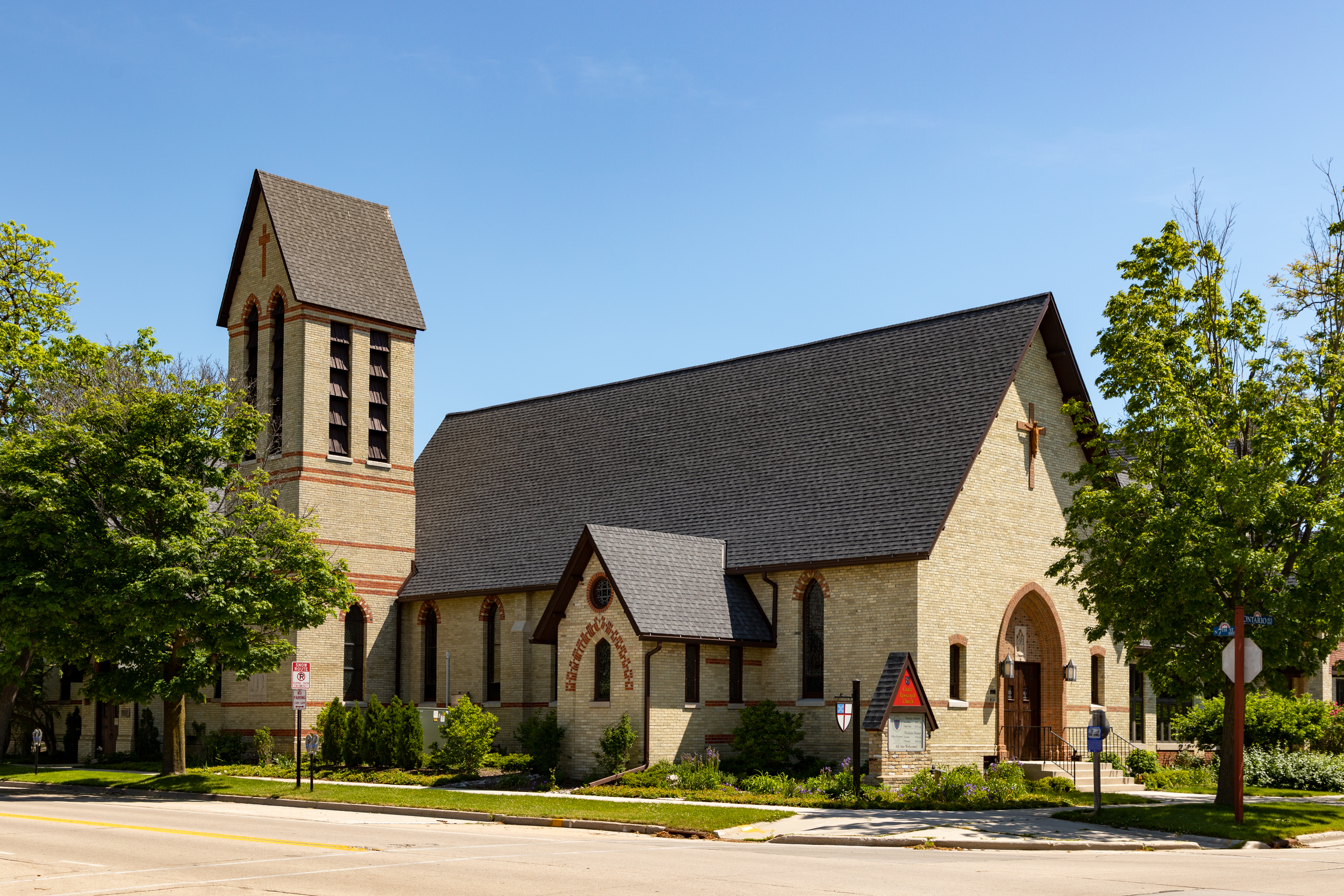 Grace Episcopal Church, Sheboygan, Wisconsin. It is one of four churches of the Downtown Churches Historic District. The district was listed on the National Register of Historic Places in 2010. The present church was built in 1871 to replace an earlier structure built in 1847. It is in High Victorian Gothic style.